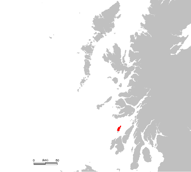 UK Colonsay.PNG (Scotland, Hebrides)